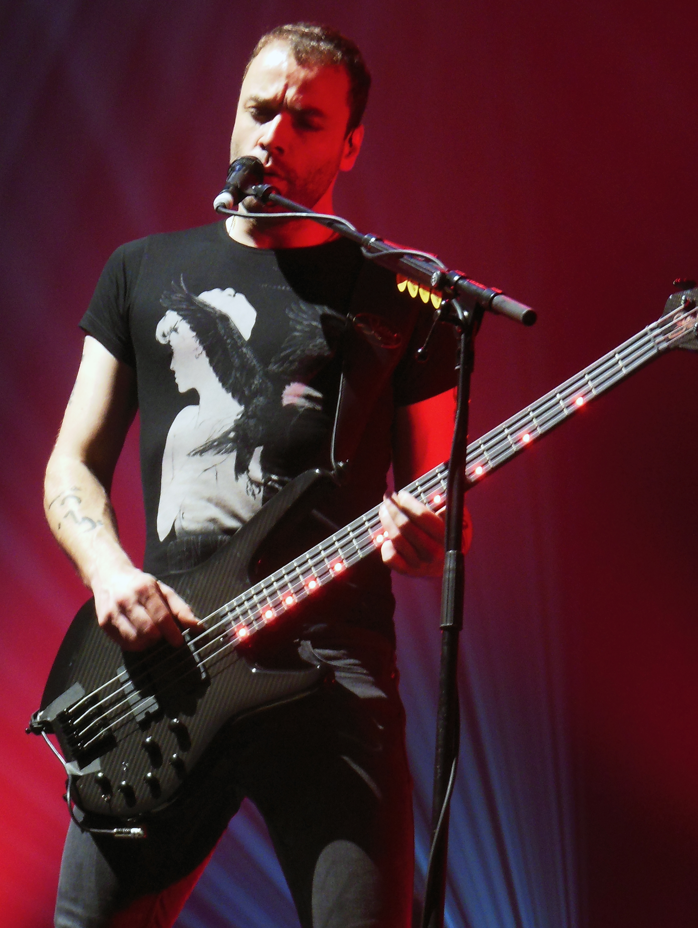 Photo taken at the Sleep Train Arena.